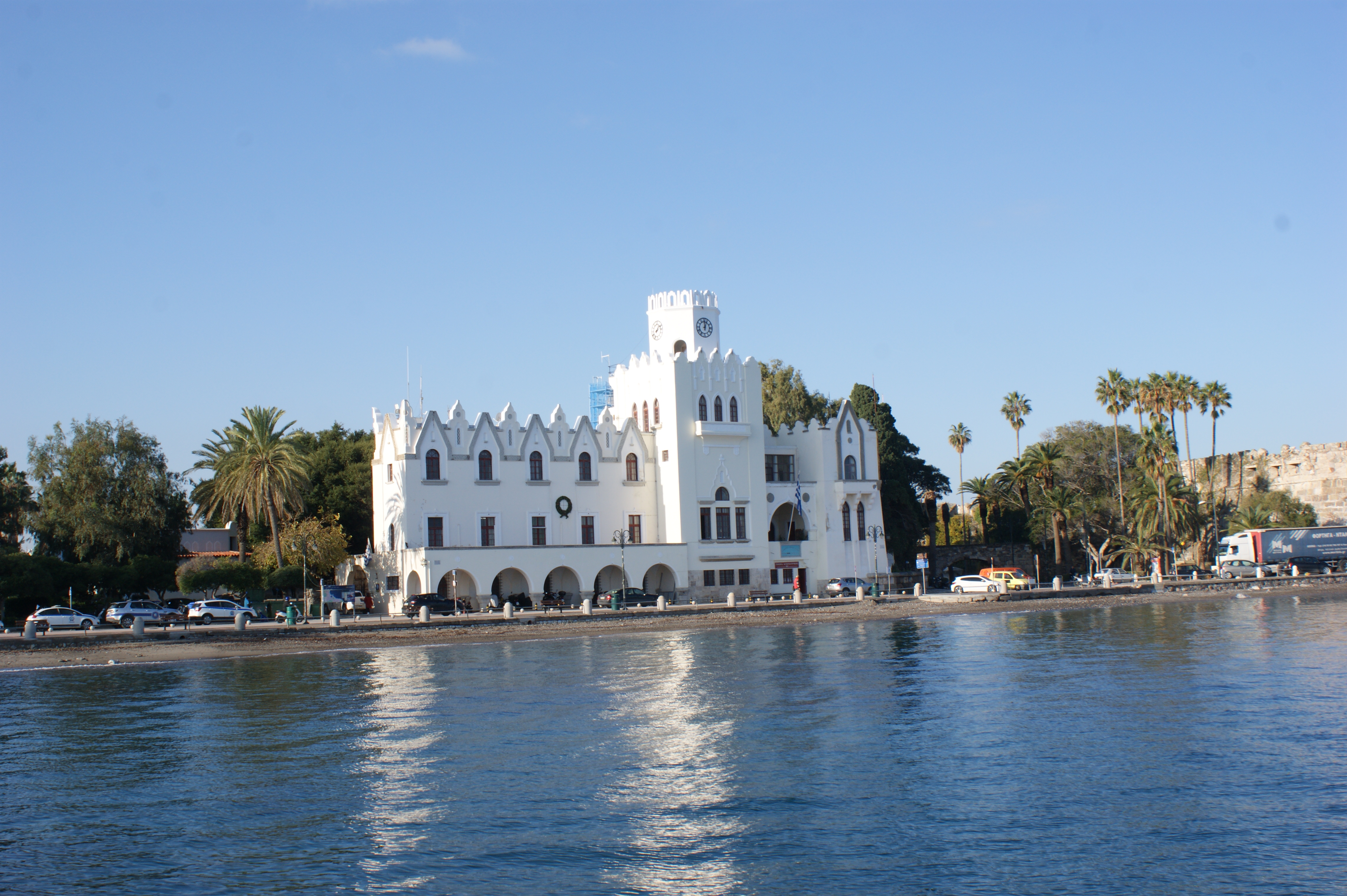 The Governor's Palace of Kos (Greek: ΔΙOΙΚΗΤΗΡΙO, also: Pallazzo del Governo, Eastern Coastal Building) is located in the city of Kos on the island of Kos (Dodecanese) Architect Florestano Di Fausto planned, built from 1927 to 1930 and today houses the police and the court of Kos as well as administrative units of the island of Kos.